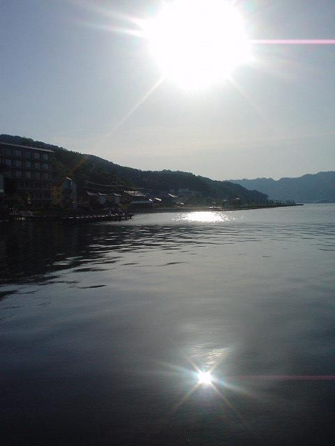 舞鶴港 Port of Maiduru, Kyoto, Japan.